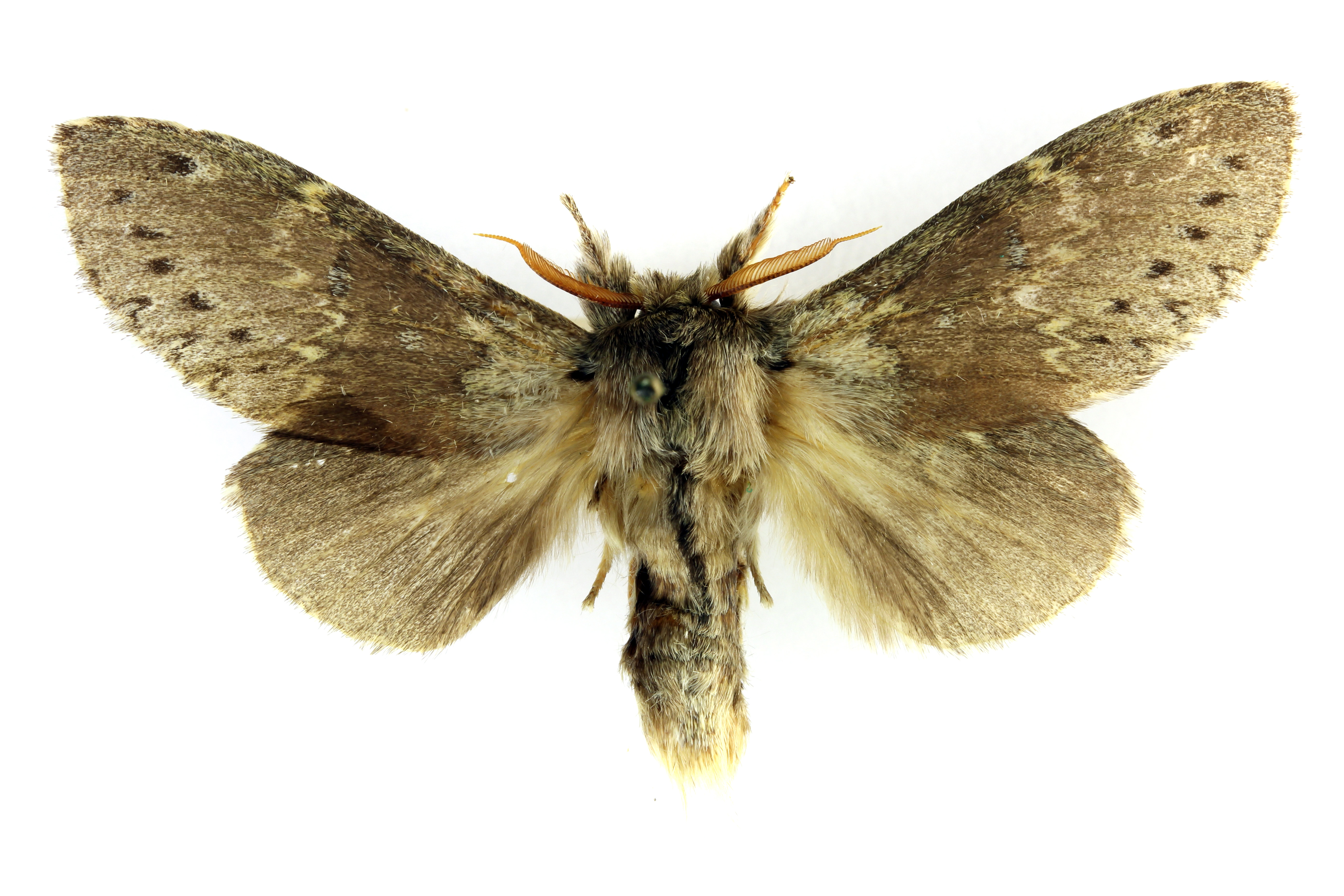 Stauropus fagi, insect collections SLU, Uppsala